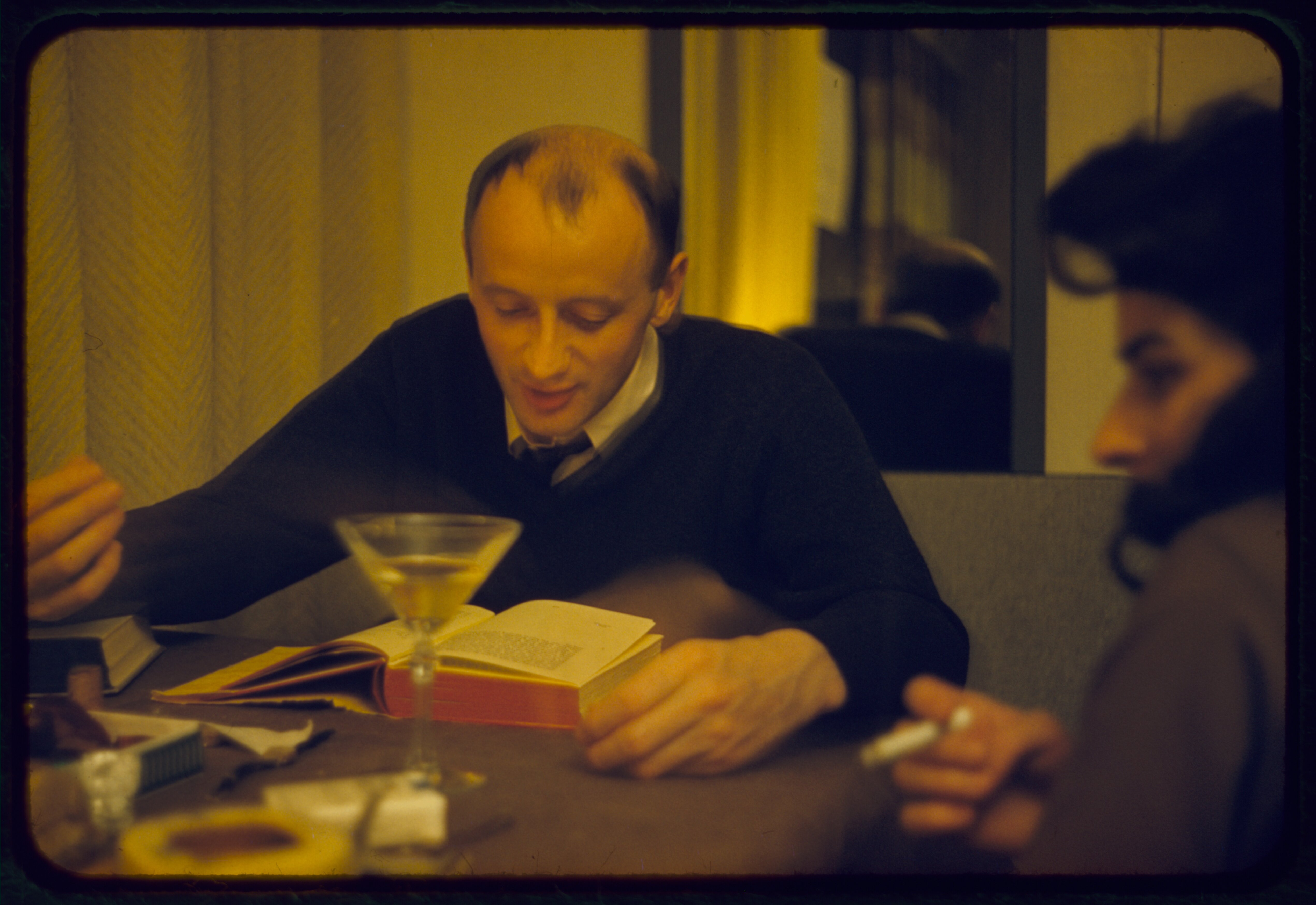 Photograph of the Iris-American architect Kevin Roche (1921–2019) at Balthazar Korab's house, Birmingham, Michigan. Note: No known restrictions on publication. Balthazar Korab Archive (Library of Congress).